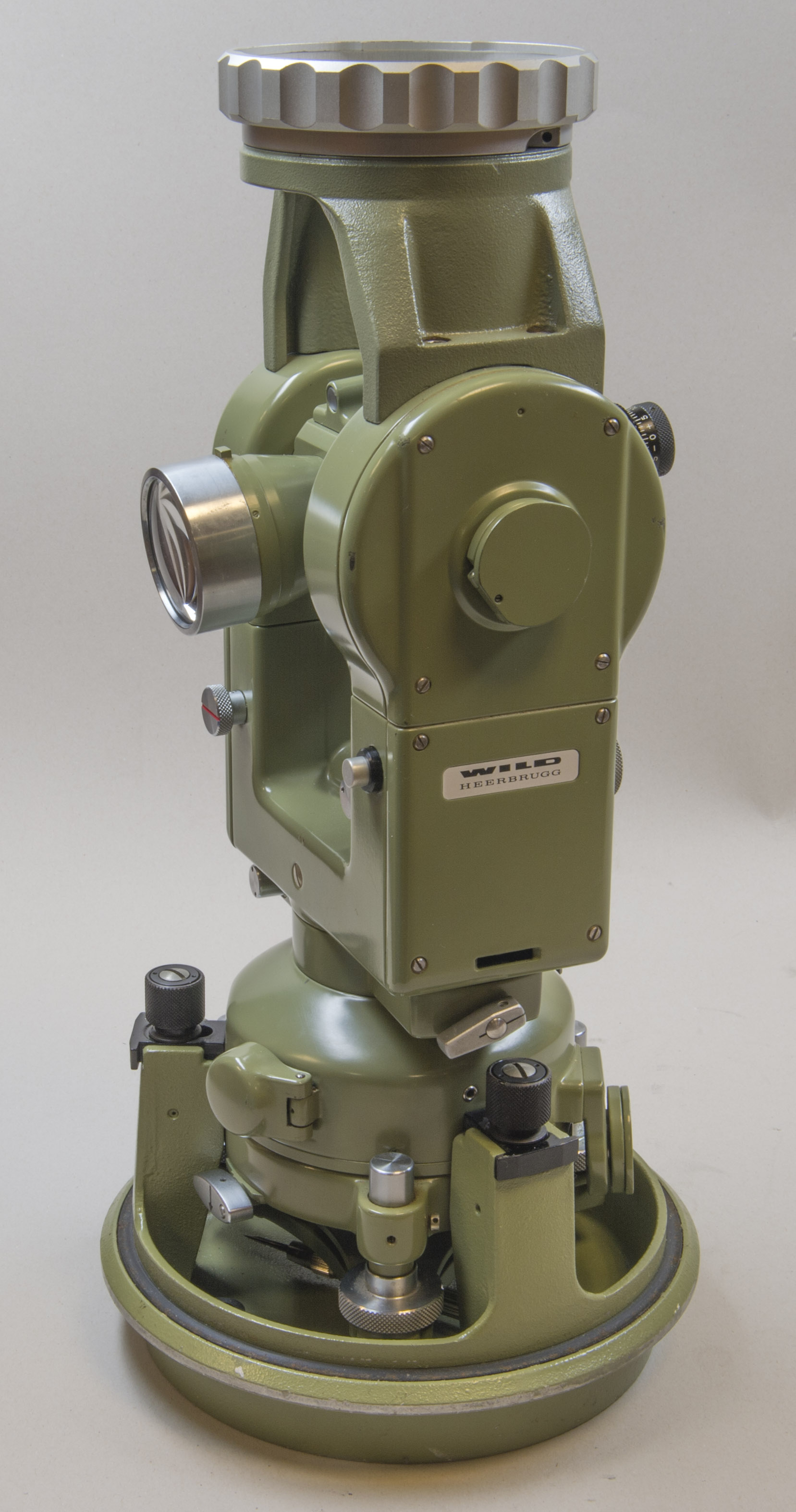 Theodolit - Model T2 manufactured by Wild, Heerbrug in the 1970th